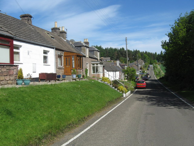 Charelston